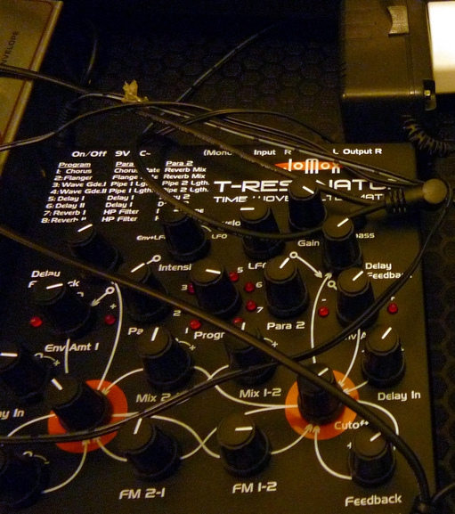 JoMoX T-Resonator (filter) Tom Bugs made me a black audio weevil. It really sounds amazing.